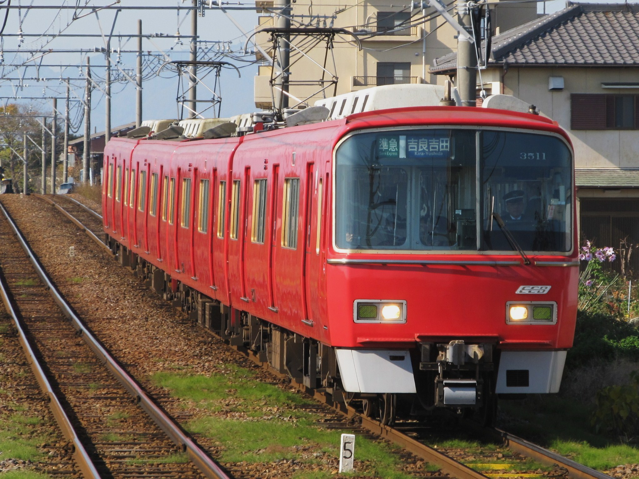 Meitetsu 3500 series. Semi Express bound for Kira Yoshida.